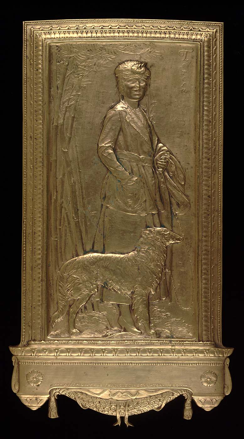 Photograph of a bas relief created by Anthony de Francisci, entitled Teresa.